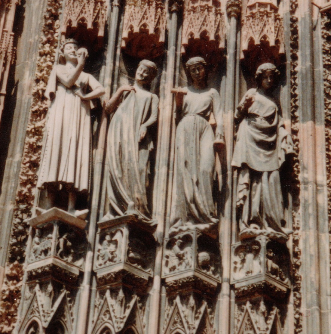 The foolish virgins and the tempter stand on the left side of the right door to Strasbourg Cathedral